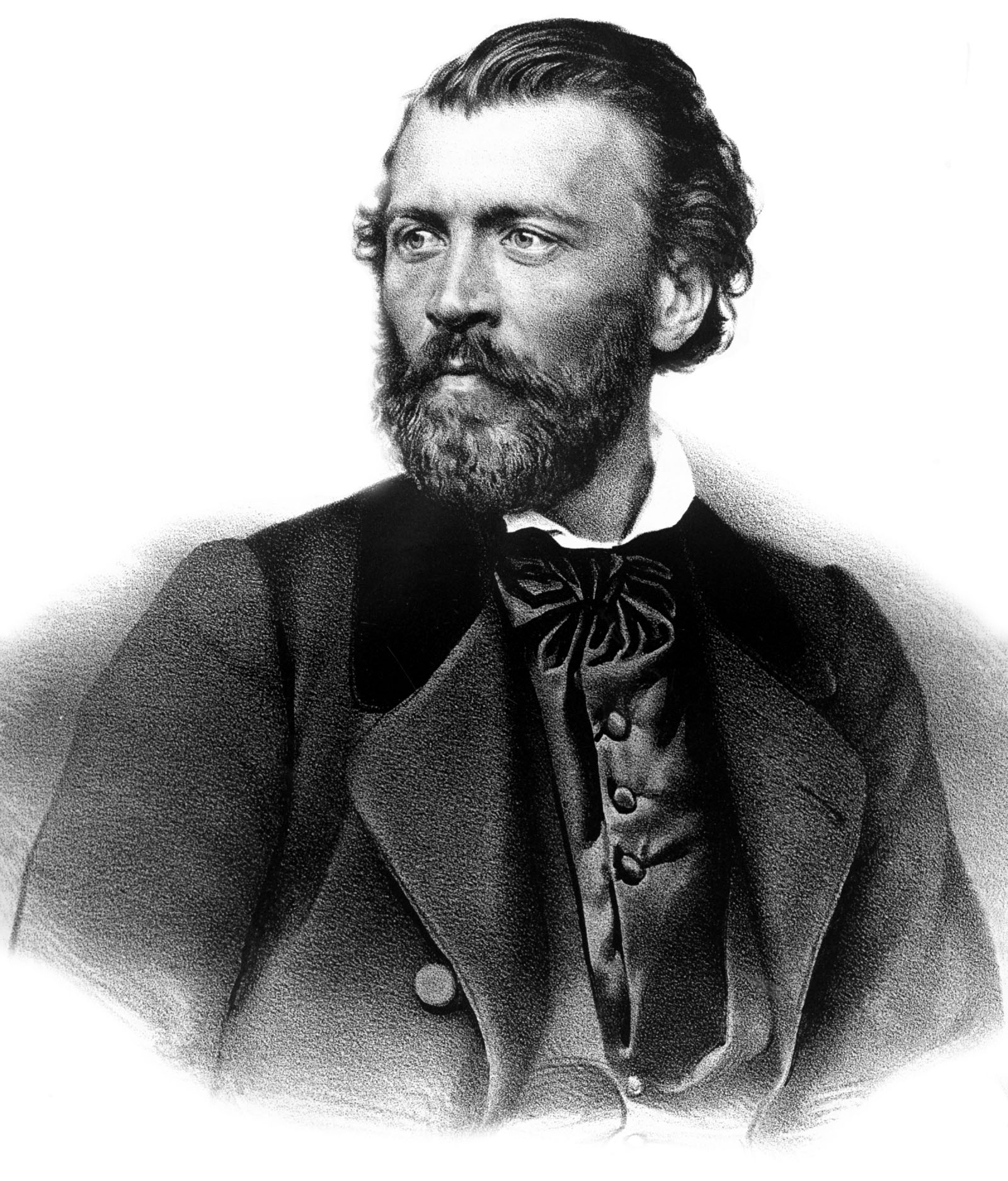 Yakov Polonsky (1819—1898), Russian poet.